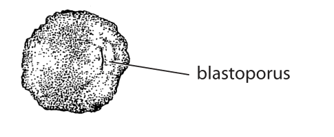 Standard Event System character depiction